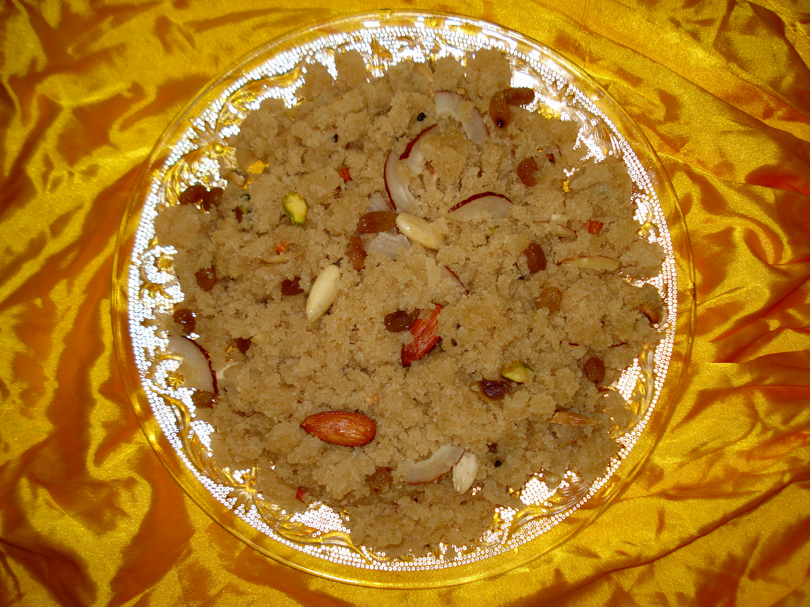 Halva